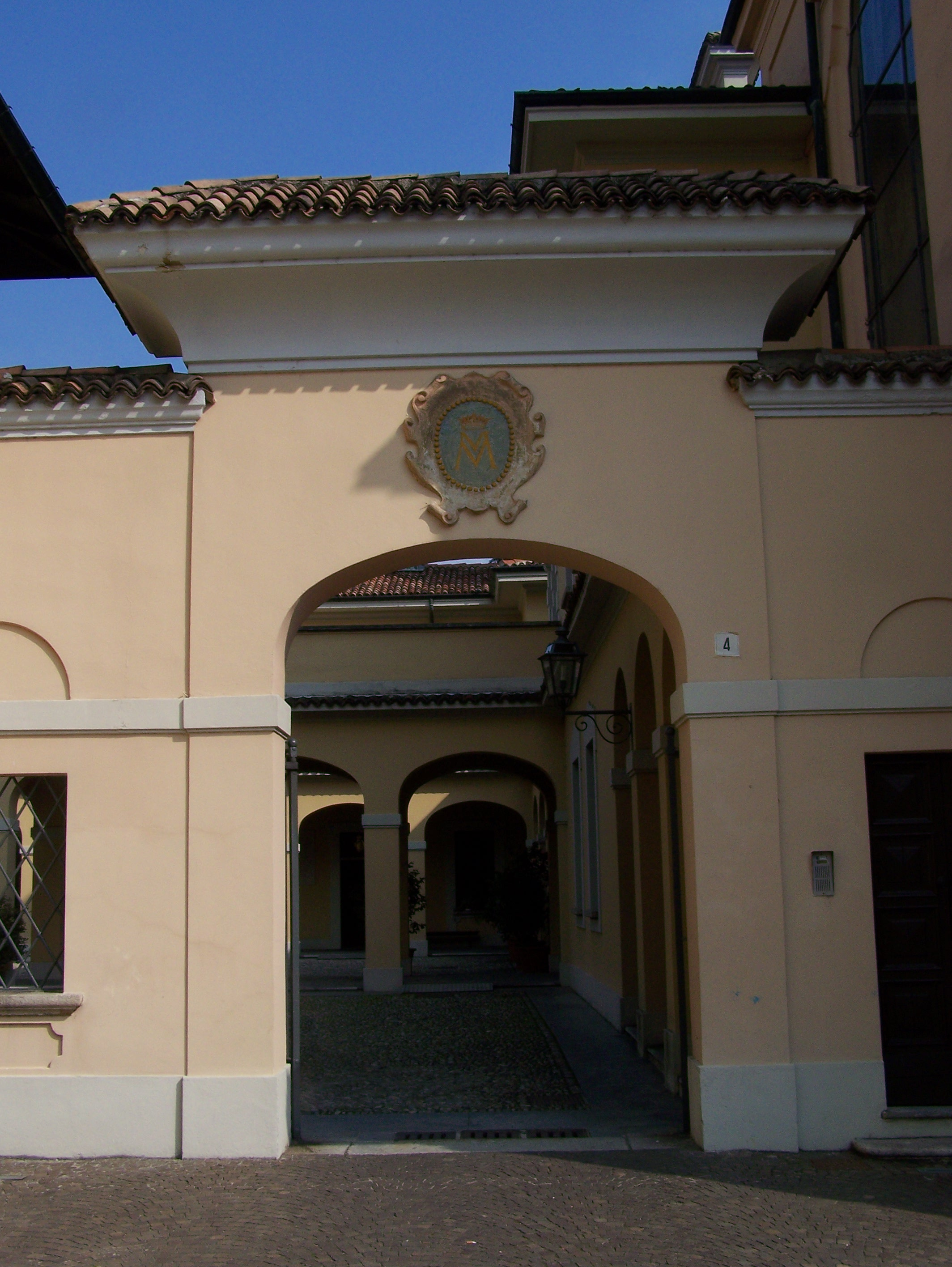 Sanctuary cloister's entrance in Corbetta (MI) - Italy